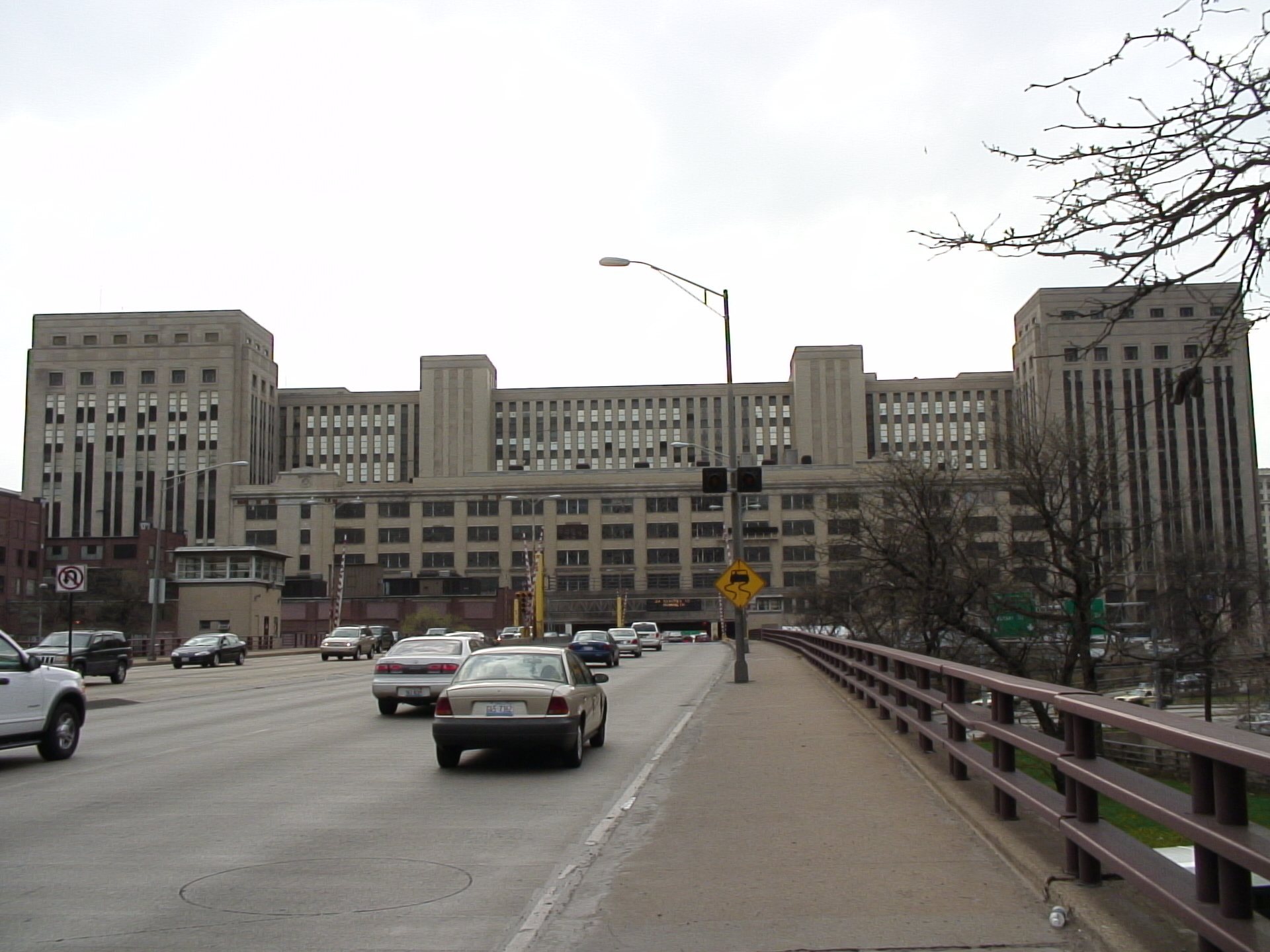 This is a picture of the Old Chicago Main Post Office looking west on the Congress Parkway Bridge from near Franklin Street, as the Eisenhower Expressway passes through the building.